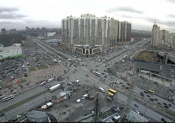 The cross of Ispytatelej and Kolomiazhskij prospects